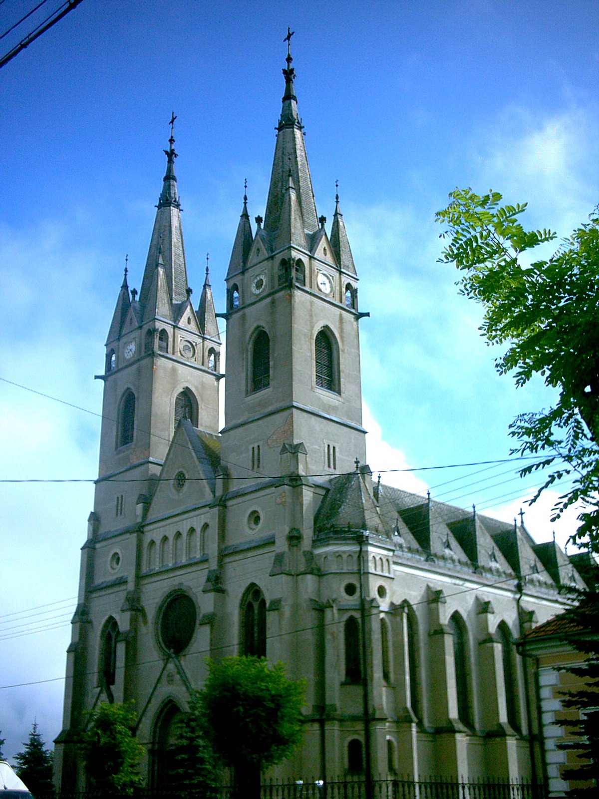 Ditró Nagytemploma - The big church of Ditrau